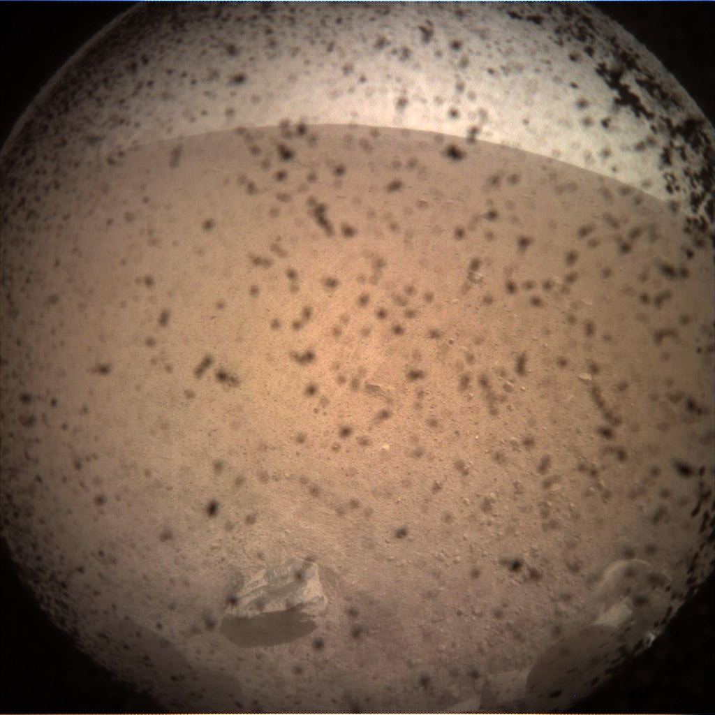 This is the first image taken by NASA's InSight lander on the surface of Mars. The instrument context camera (ICC) mounted below the lander deck obtained this image on Nov. 26, 2018, shortly after landing. The transparent lens cover was still in place to protect the lens from any dust kicked up during landing. NASA's Jet Propulsion Laboratory, a division of Caltech in Pasadena, California, manages the InSight Project for NASA's Science Mission Directorate, Washington. Lockheed Martin Space, Denver, Colorado built the spacecraft. InSight is part of NASA's Discovery Program, which is managed by NASA's Marshall Space Flight Center in Huntsville, Alabama. For more information about the mission, go to